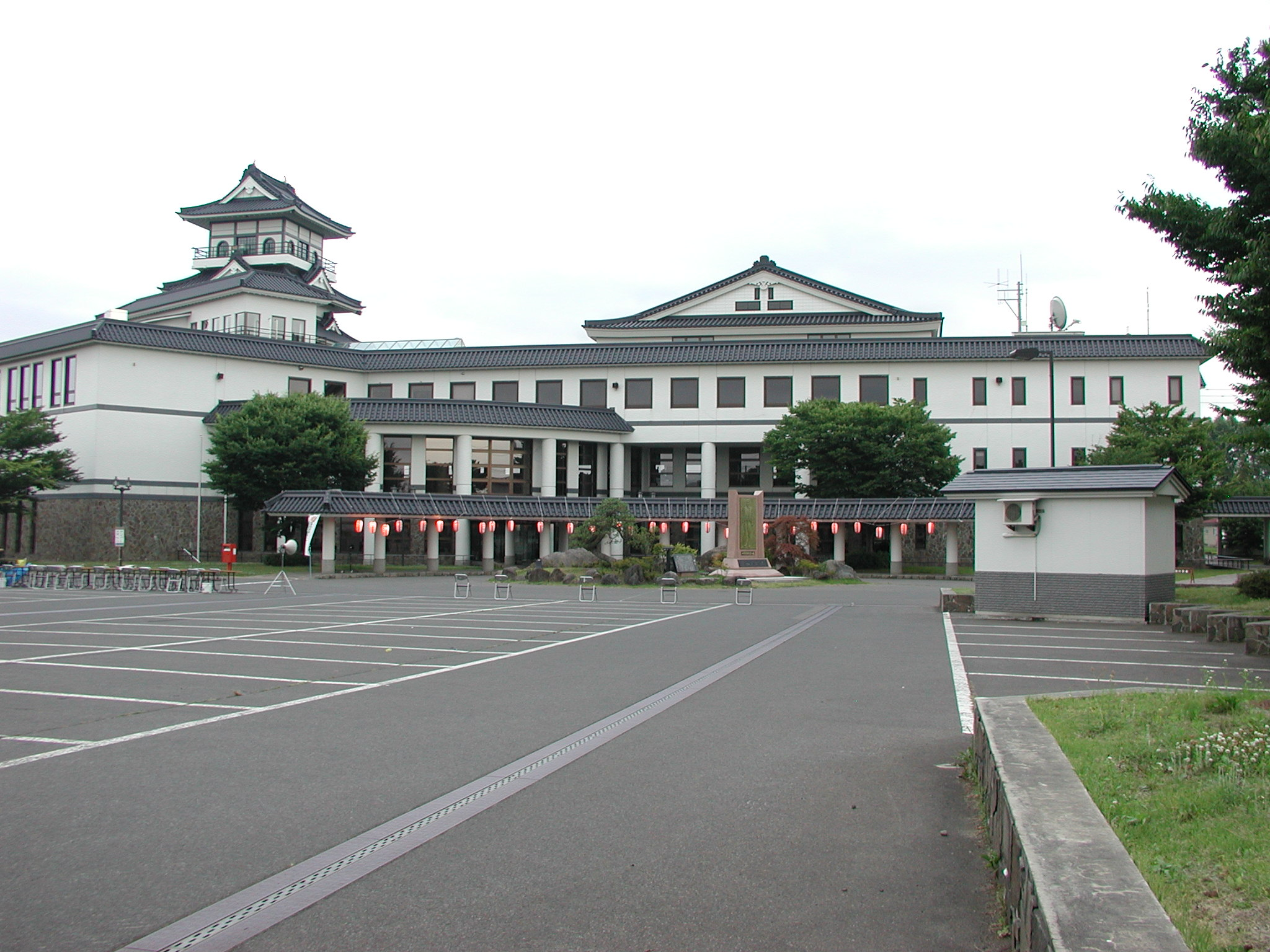 Inakadate Village Office Aomori japan